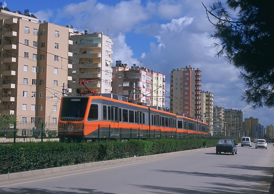 Adana metrosu at Huzurevi district.